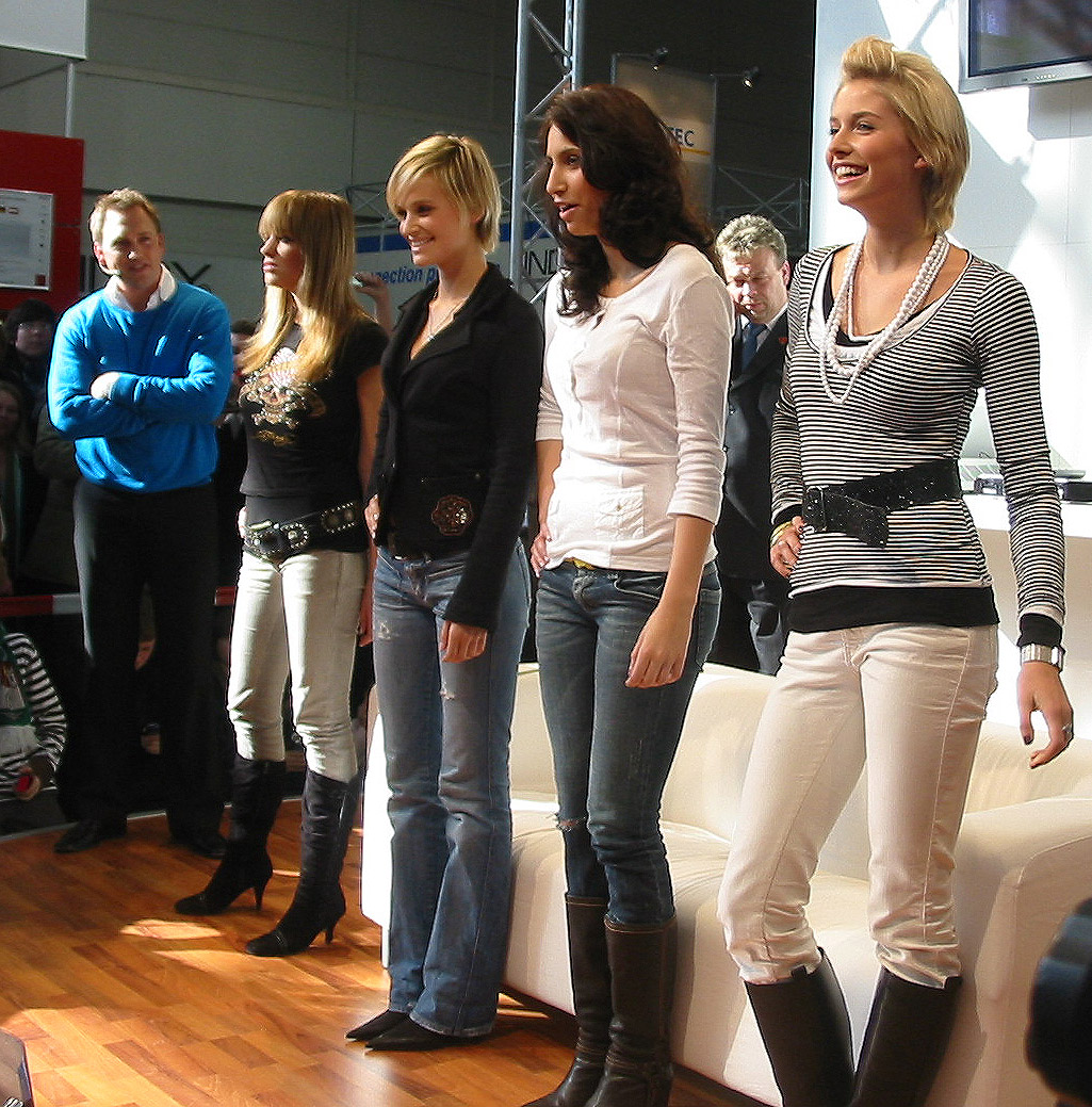 Contestants (from left) Yvonne, Janina, Jennifer and Lena Gercke of German TV show "Germany’s Next Topmodel" at CeBIT 2006